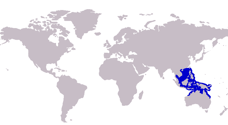 Distribution of bluespotted trevally, Caranx bucculentus using map based on GDFL image